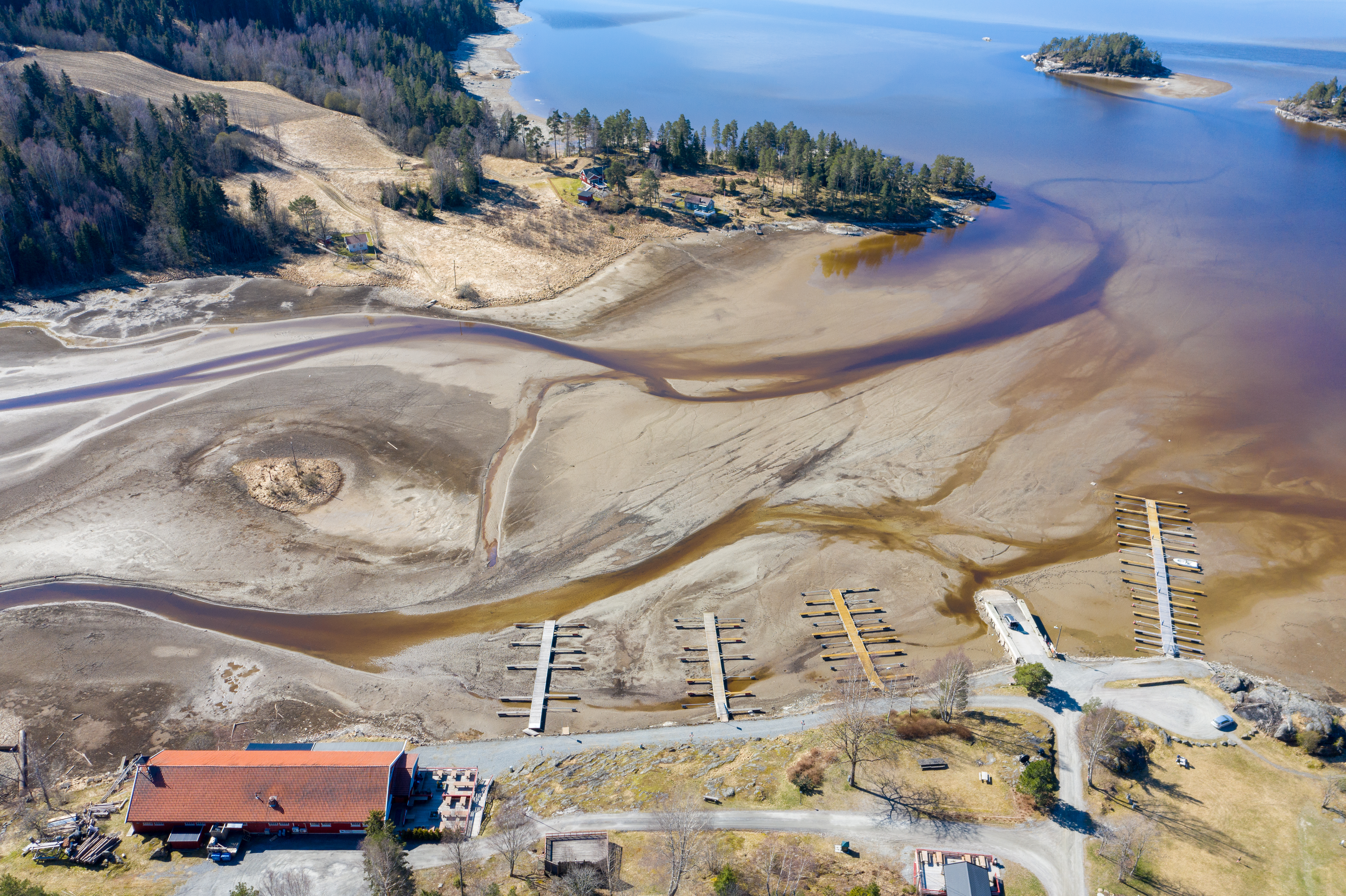 Low water in April, when the water is lowered to prepare for spring flood.